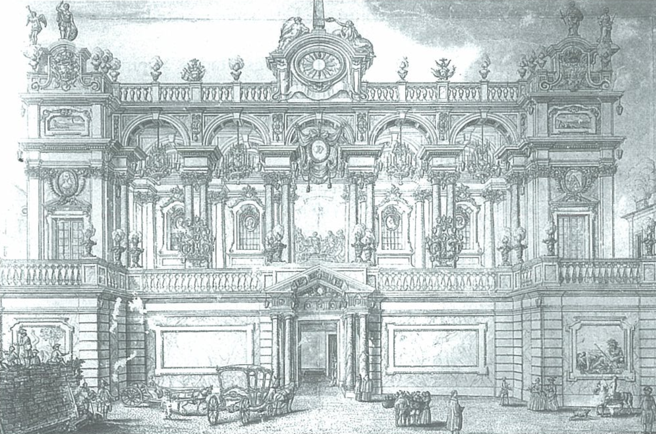 The house of Jacob Pedro Estraus, in Lisbon, with a temporary wooden façade and lights, for the Acclamation of Queen Maria I of Portugal.